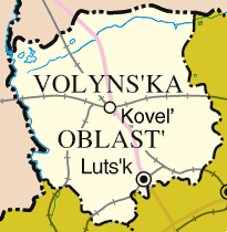 Map of Volyn Oblast, Ukraine Adapted from